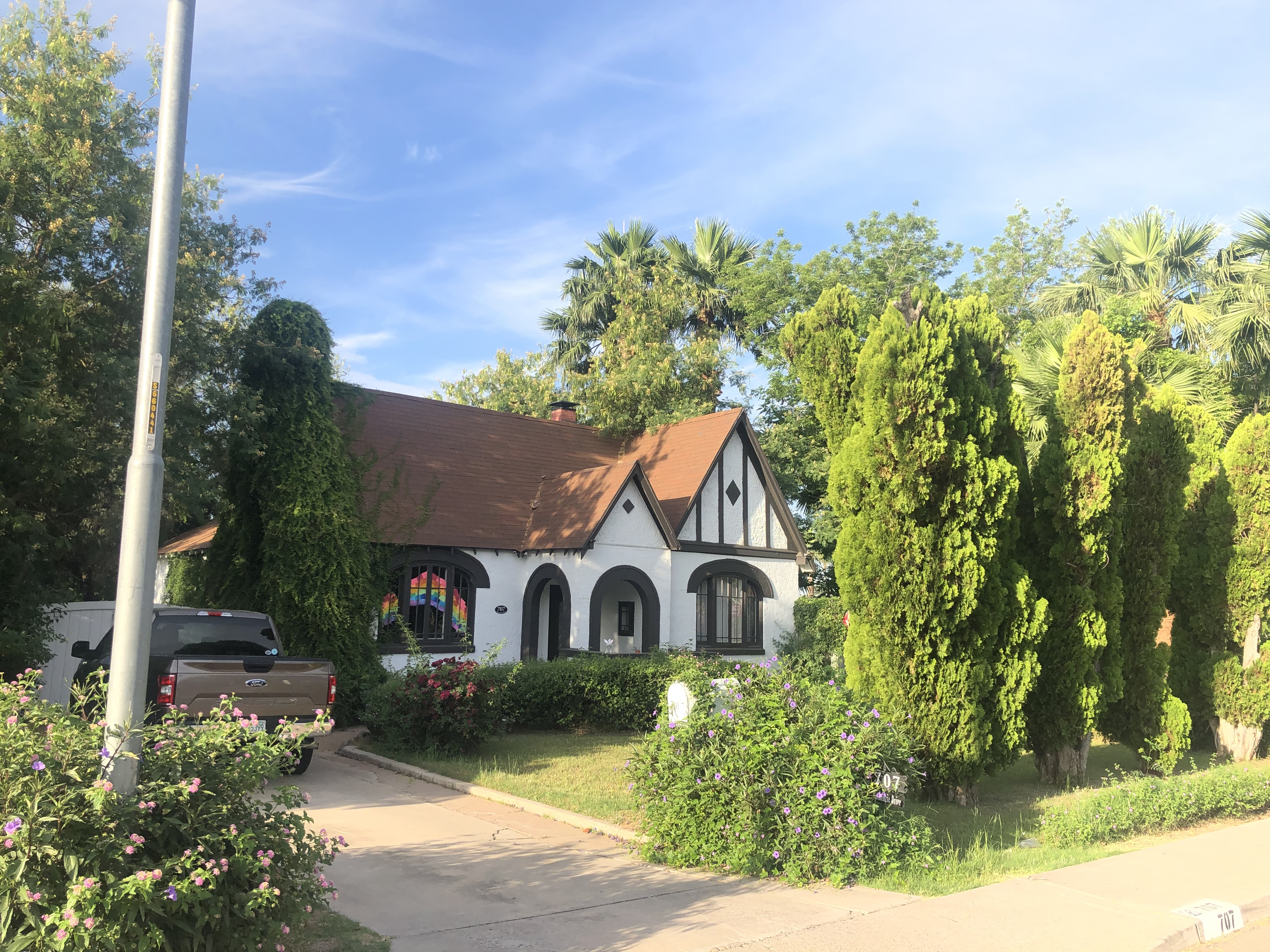 A Tudor revival home in the Woodlea Historic district. Pictured April 2020.